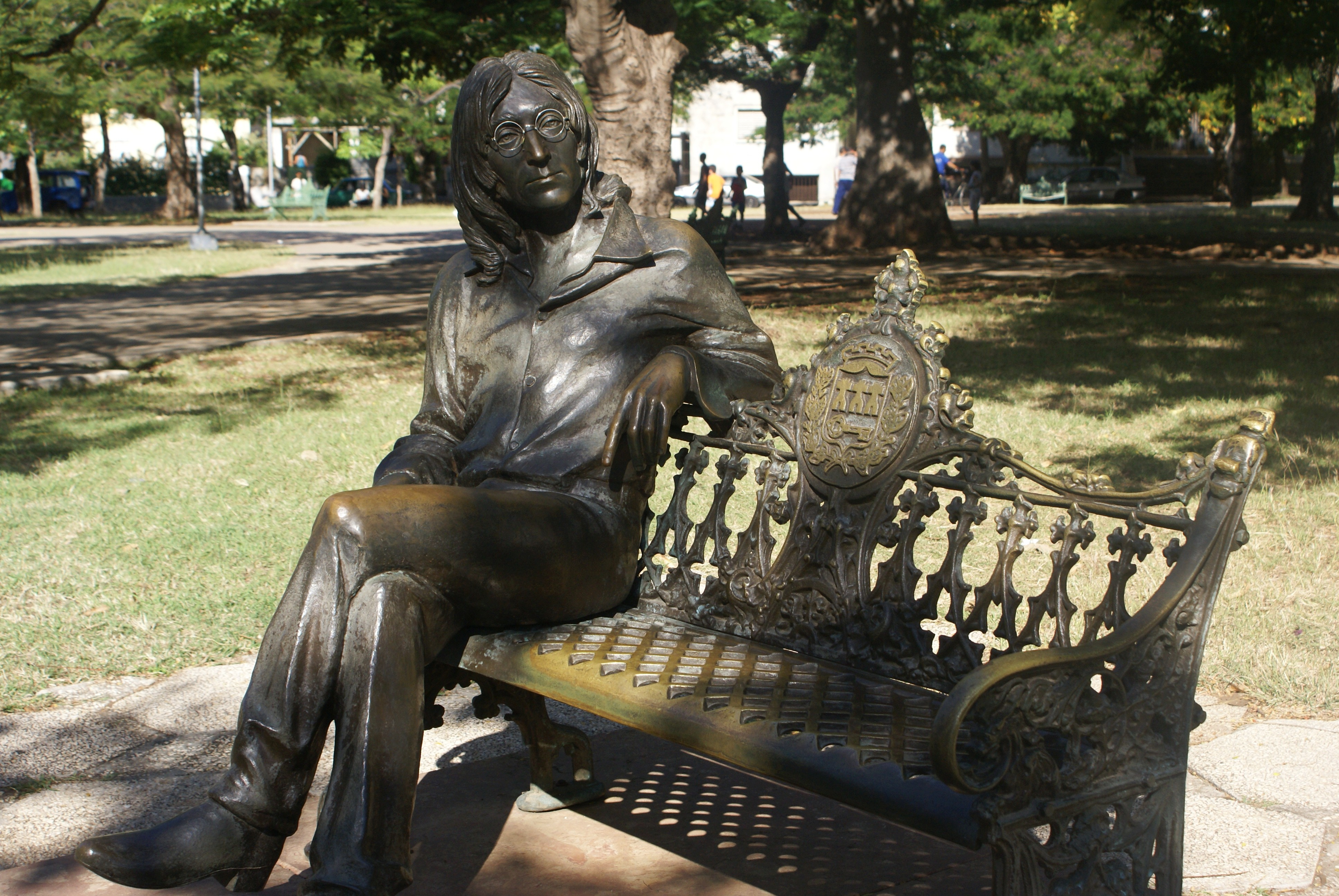 John Lennon statue in Havana, Cuba